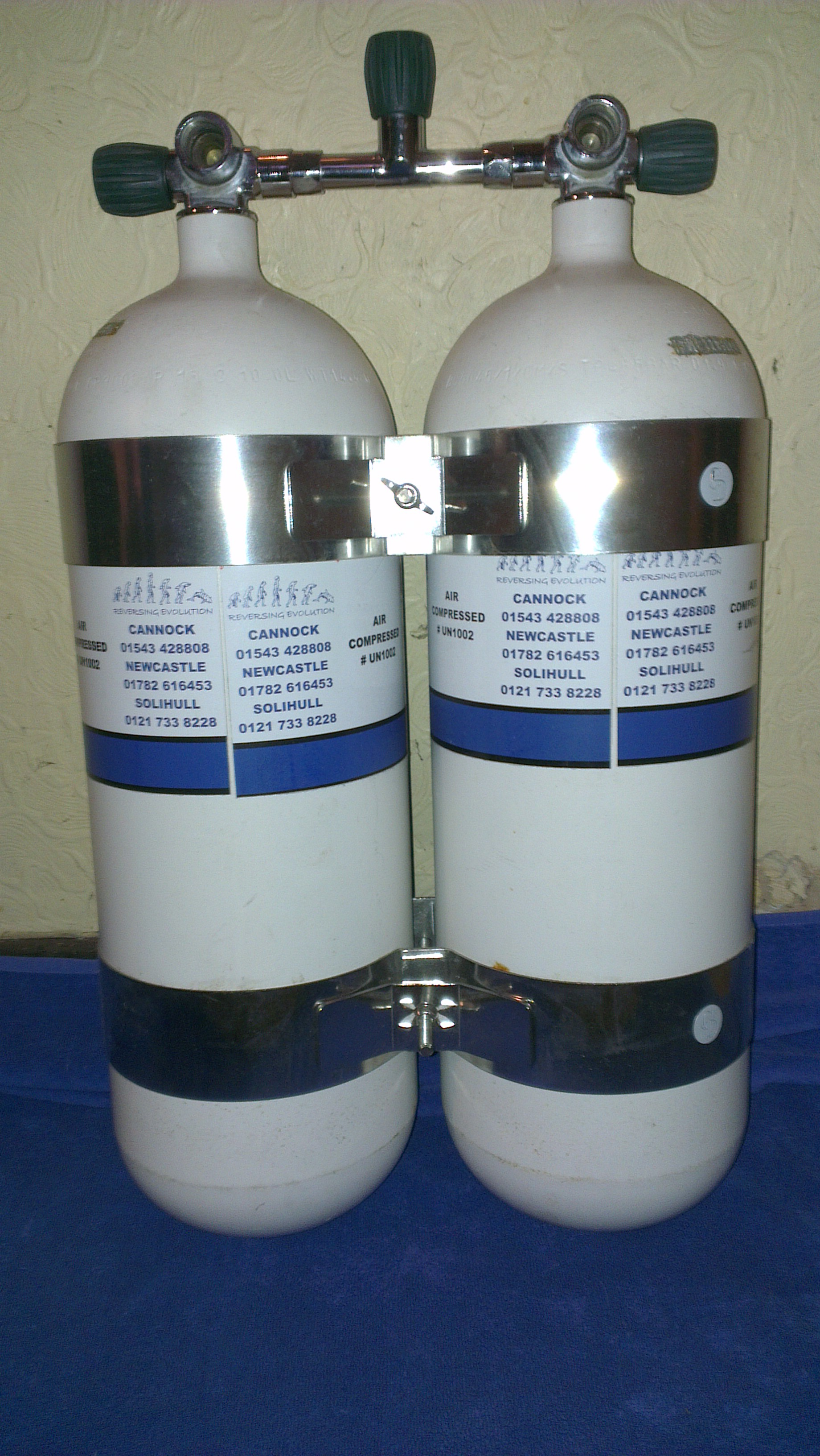 Two scuba diving 300 bar cylinders are connected together by an isolating manifold.